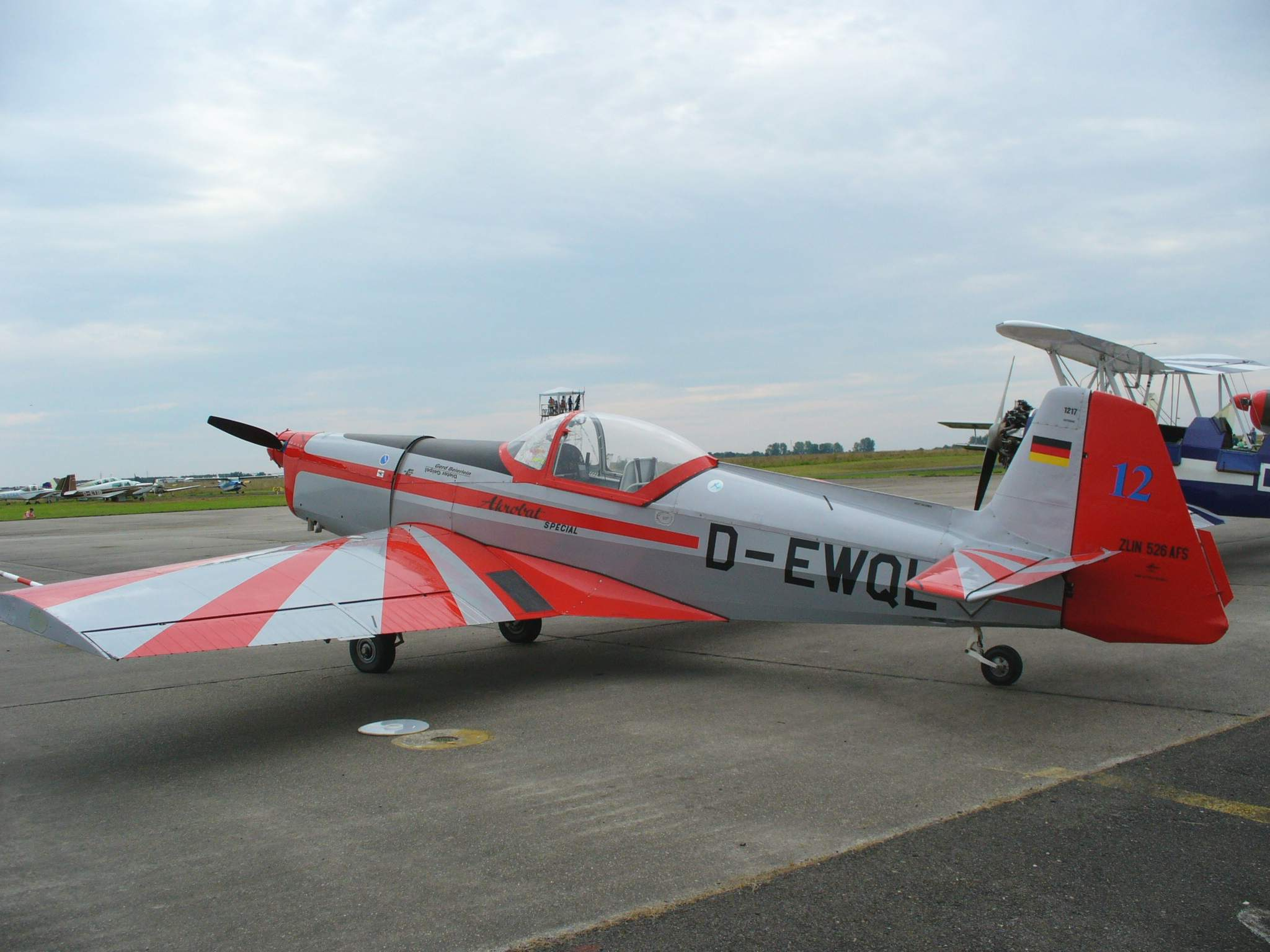 Zlin 526 ASF, Czech aerobatic aircraft